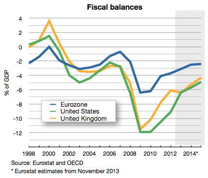 Comparison of government surplus/deficit (2001-2012) of Eurozone, United States and United Kingdom. 1998-2000 data from Trading economics ( 2001-2007 data from Eurostat ( 2008 data from OECD Economic Outlook No. 90, September 2011 2009-2010 data from OECD Economic Outlook No. 91, May 2012 ( 2011-2014 data from Eurostat ( 2012-2014 Winter forecast (1/2013) (